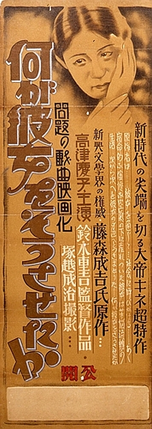 Poster of “Naniga-kanojo-o-so-sasetaka (What made her do it?)”